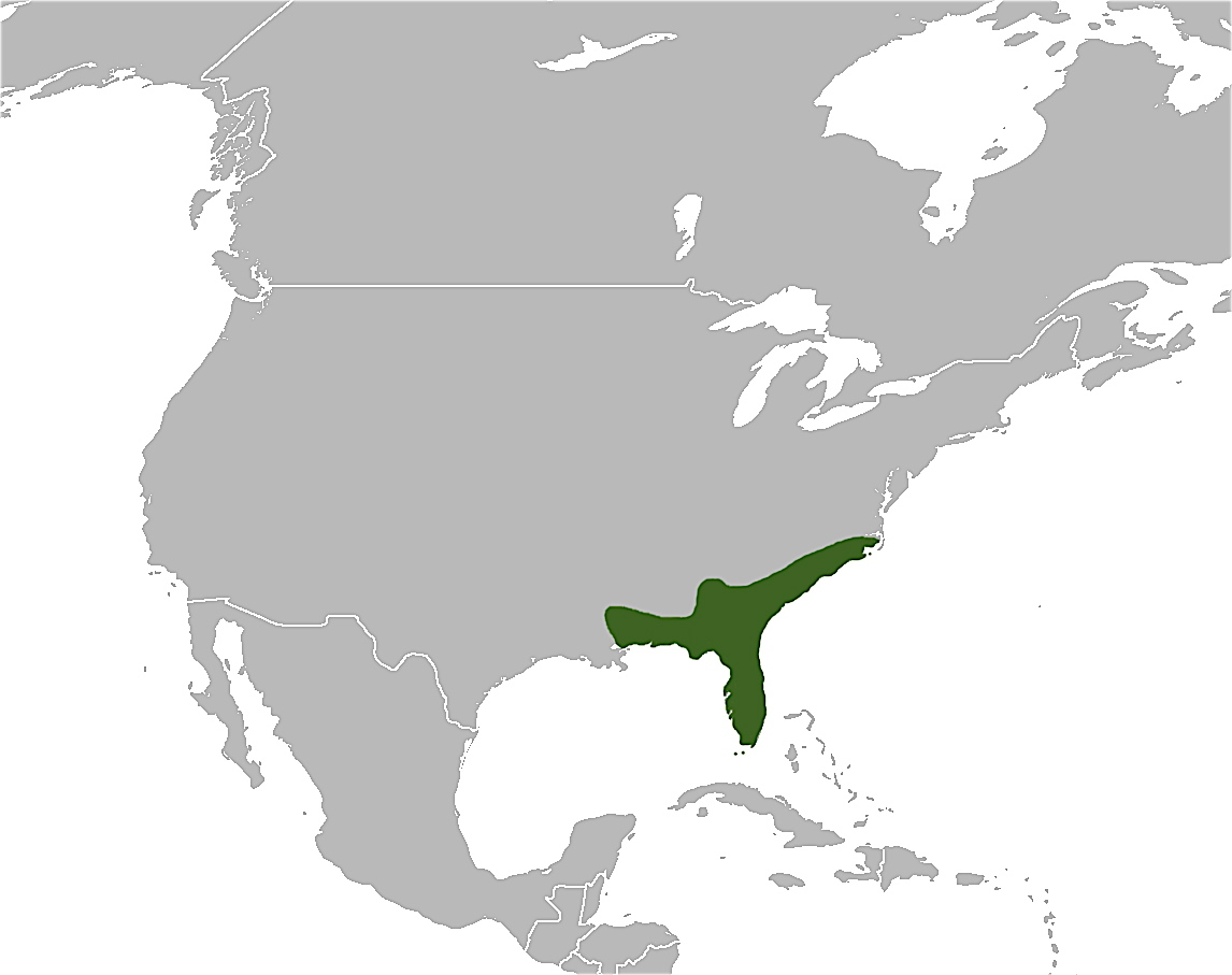 A map showing the distribution of Crotalus adamanteus.